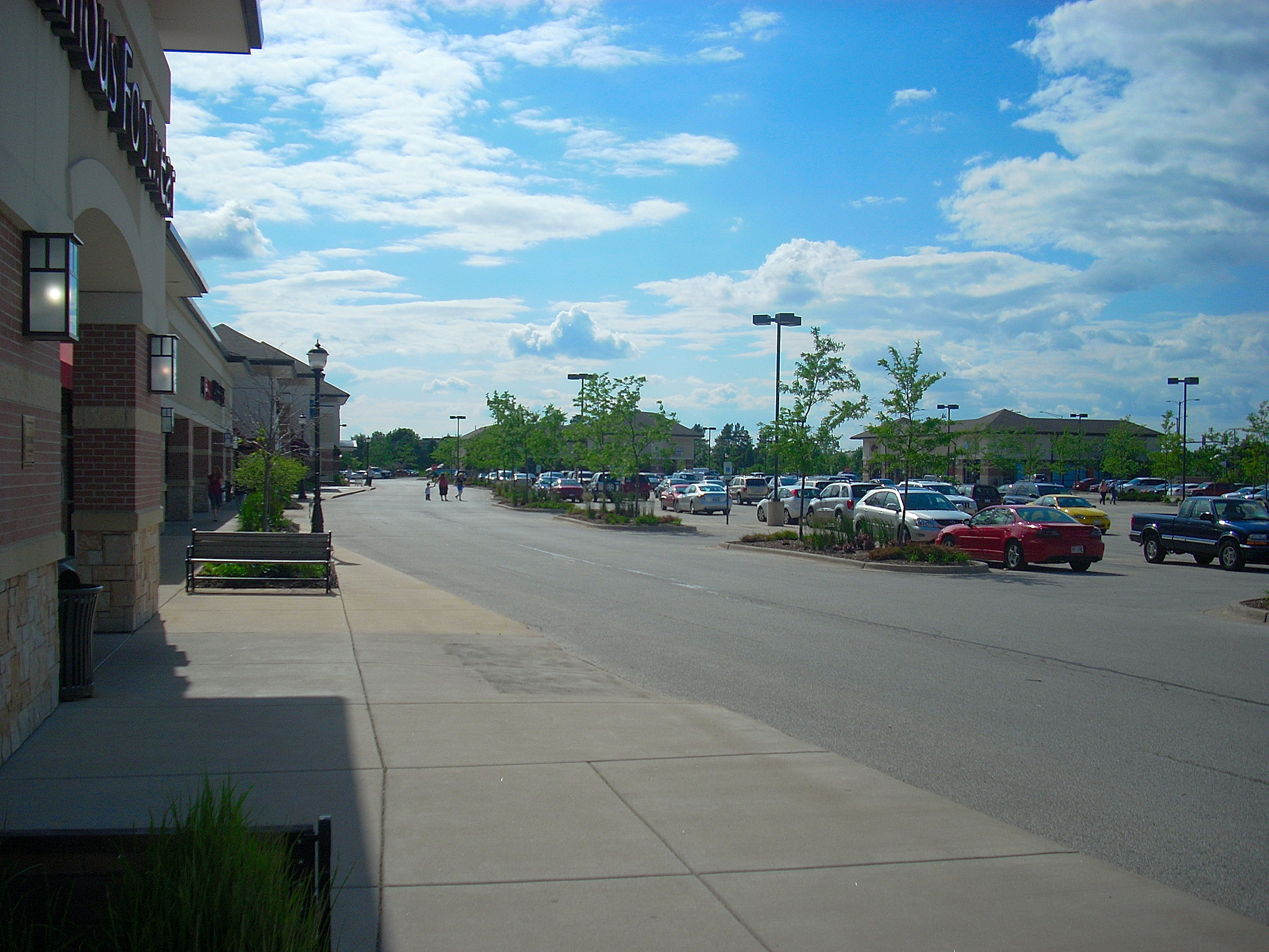 Gurnee Town Centre, a shopping plaza in west Gurnee, Illinois.